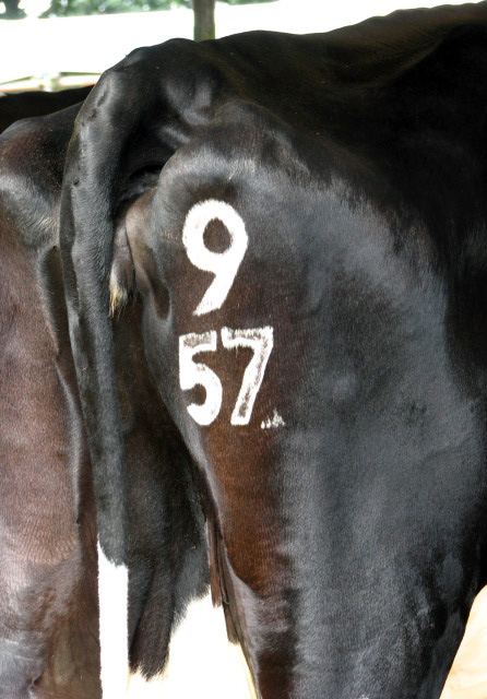 A day at the Aylsham Show - cow no. 9/57 Rules and regulations of modern-day livestock production demand for every animal to be accounted for and hence recorded, marked and numbered. Sheep commonly wear eartags but animals whose wool is not regularly shorn are often also freeze branded. This method kills the pigment-producing cells in the hair follicle and when the hair regrows where the brand was applied, it is white. Freeze brands work best on black, dark red or red animals as seen here on the backside of a Holstein Friesian cow. After last year's absence due to restrictions in context with an outbreak of Bluetongue disease (catarrhal fever), a great number of sheep, goat and cattle breeds were again presented at this year's show. The 62nd Aylsham Show is a traditional one-day agricultural show, held in the grounds of Blickling Park, a National Trust estate. It took place on August Bank Holiday Monday. With an average attendance of 15,000 visitors, it is considered to be the largest of its type in East Anglia and organisers were hoping to be able to match the £40,000 surplus income that was donated to local charities last year.